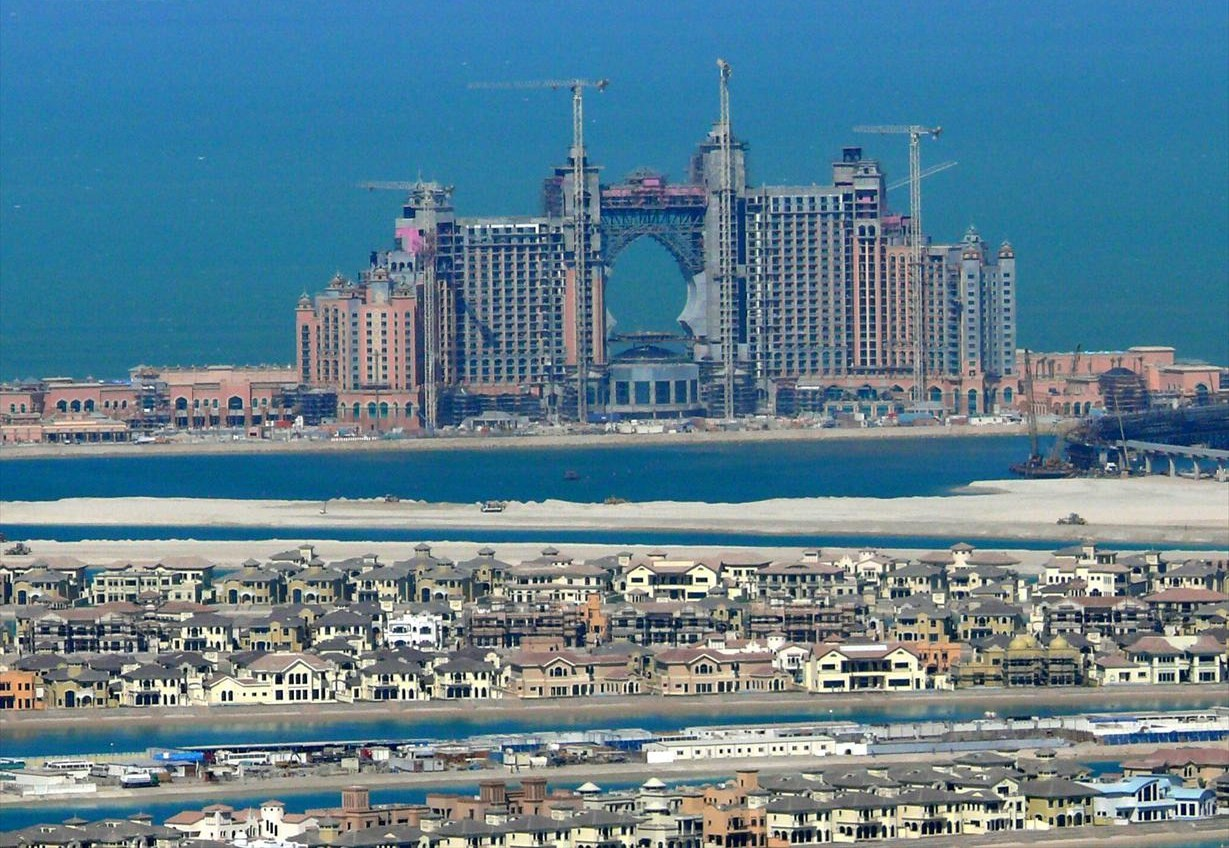 This is a photo showing the completion of Atlantis The Palm, located on the Crescent of the Palm Jumeirah in Dubai, United Arab Emirates, on 28 November 2007. The buildings seen in the foreground are the villas on the Crown of the Palm Jumeirah. This photo was taken from the roof of Marina Heights Tower.